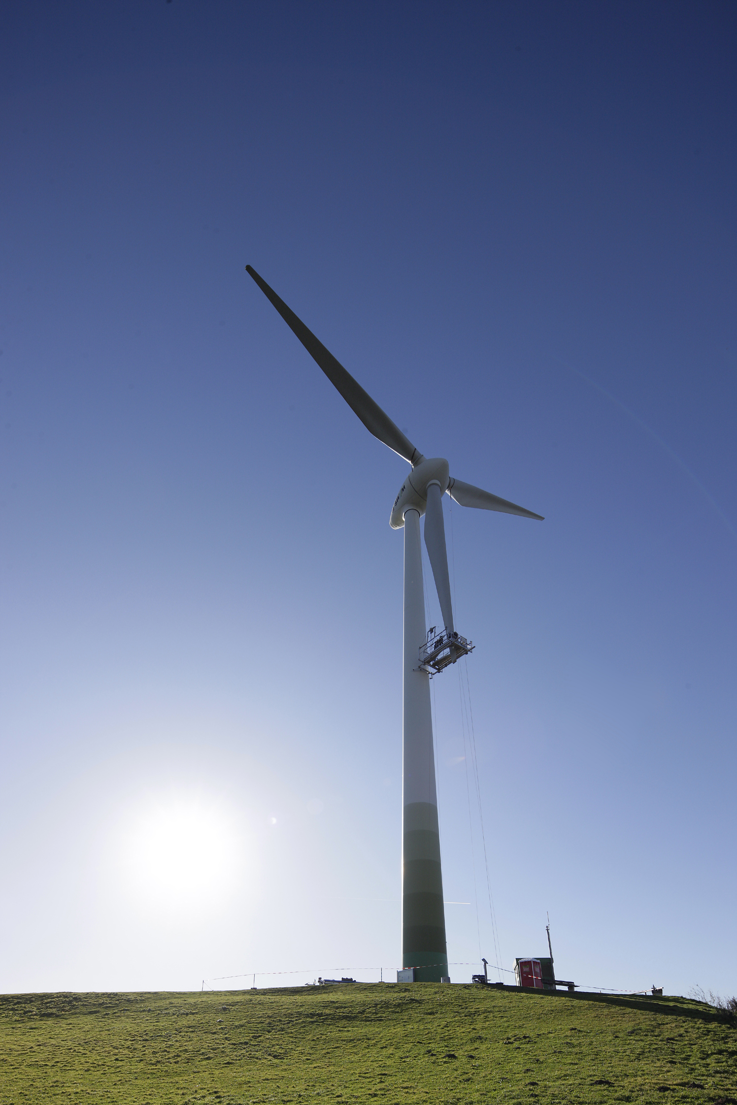 Light for the Future Wind power, smart grids and green lighting systems help protect the planet‘s climate. And Siemens contributes to these efforts with its products: The company is THE infrastructure giant and has the biggest environmental portfolio in the world.